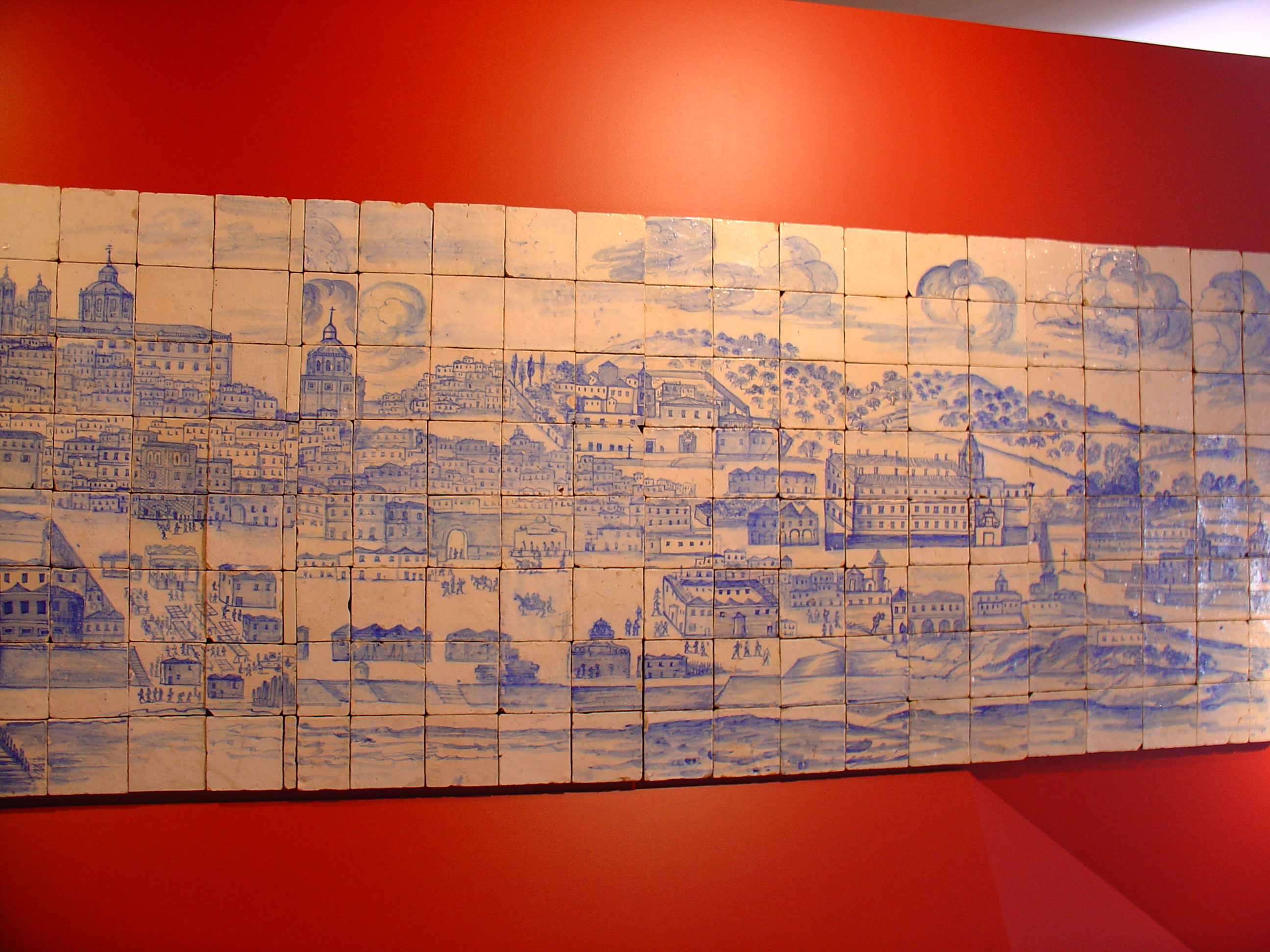 Alfama in Lisbonne before the earthquake of 1755. Museu Nacional do Azulejo.